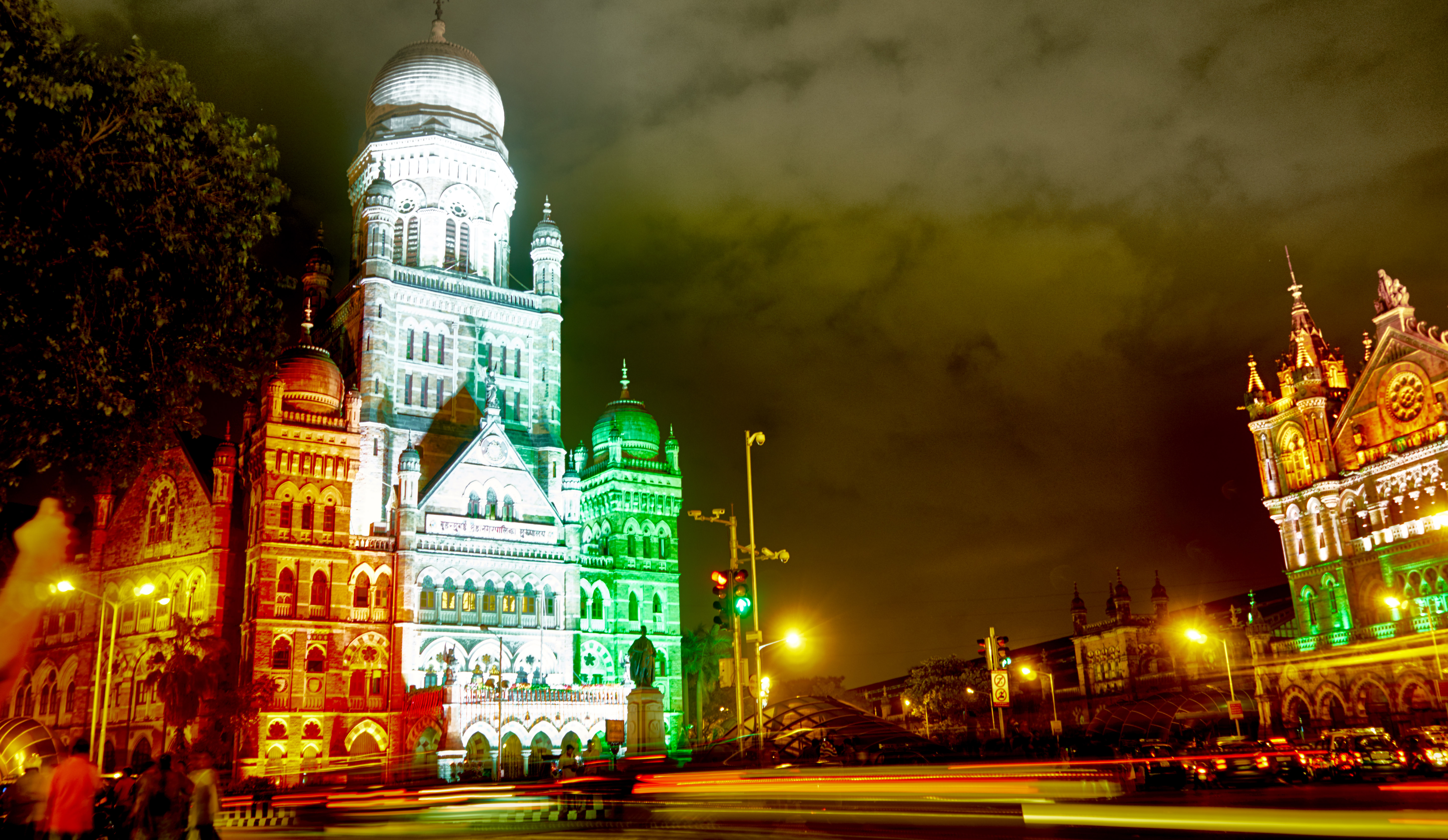 BMC Building, Brihanmumbai Municipal Corporation